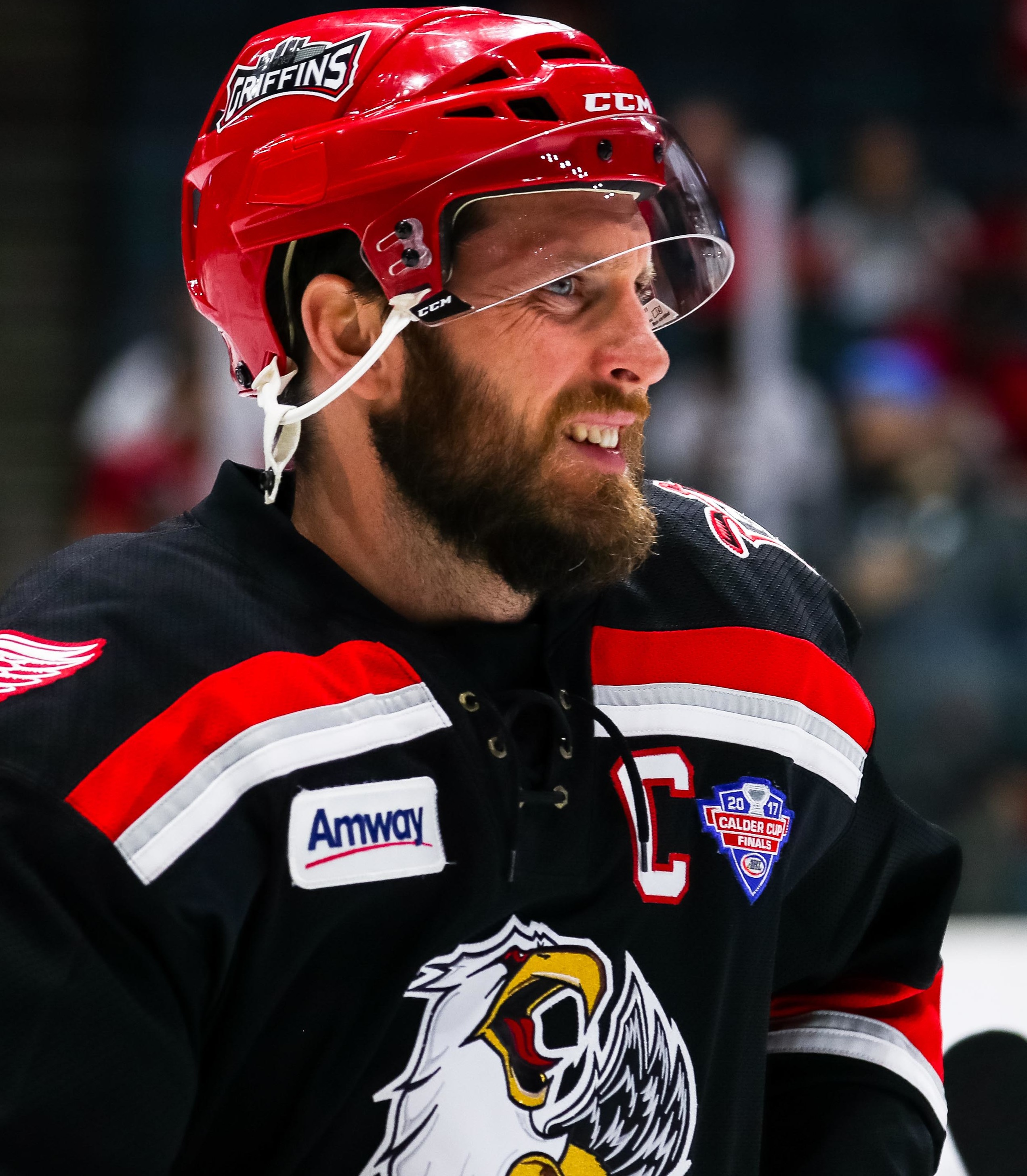 Photo: Sam Iannamico